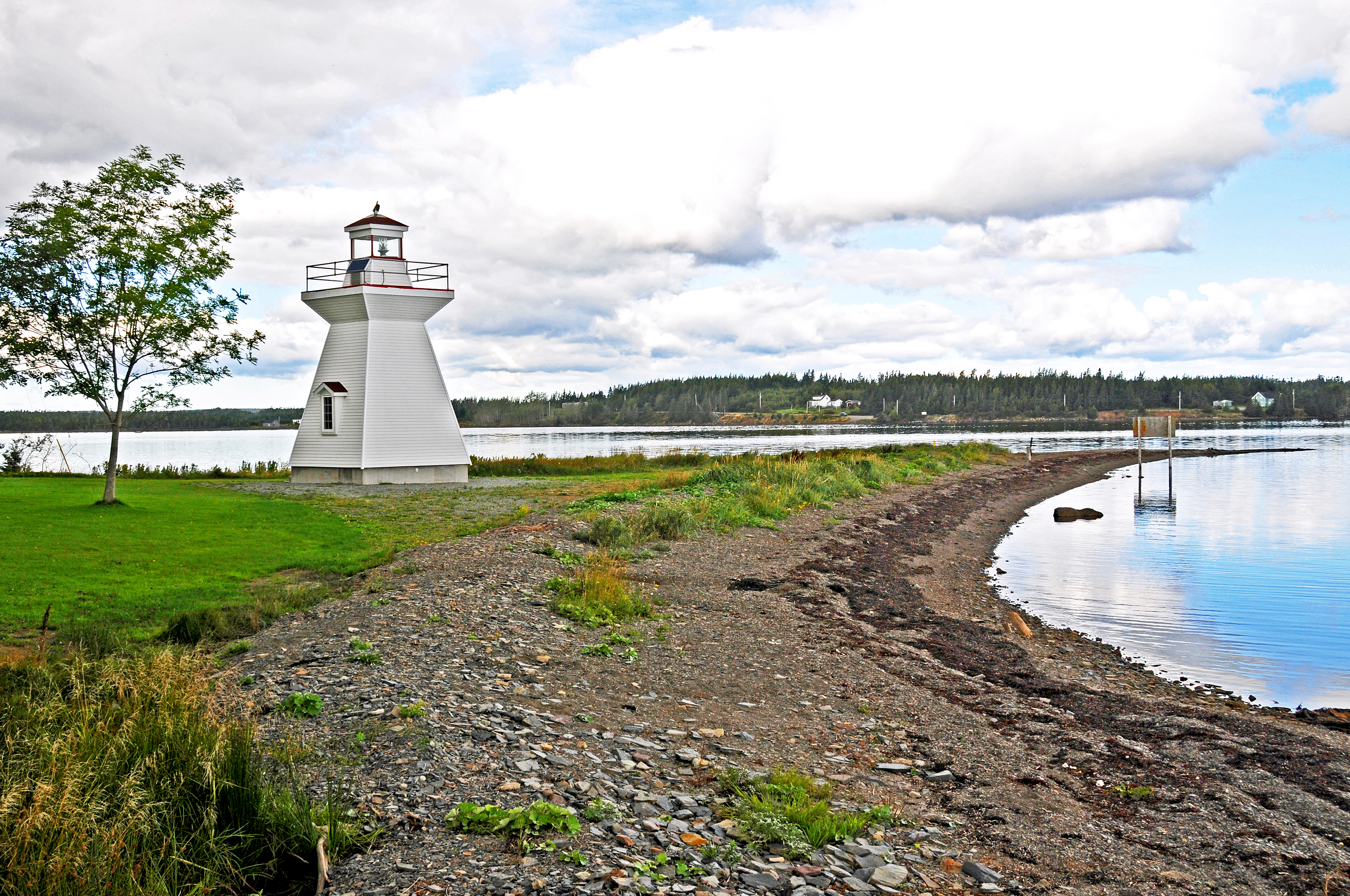 PLEASE, no multi invitations, glitters or self promotion in your comments. My photos are FREE for anyone to use, just give me credit and it would be nice if you let me know, thanks - NONE OF MY PICTURES ARE HDR. This lighthouse is located in a Provincial Park, a great place to sit, walk of have a picnic with the family. Location: On beach near wharf at Grandique Point (Lennox Passage) Began and Lit: 1884 Tower Height 9.75 meters (32ft) Light Height: 8.84 meters (29ft) above water level Scenic Drive: Fleur-de-lis Trail